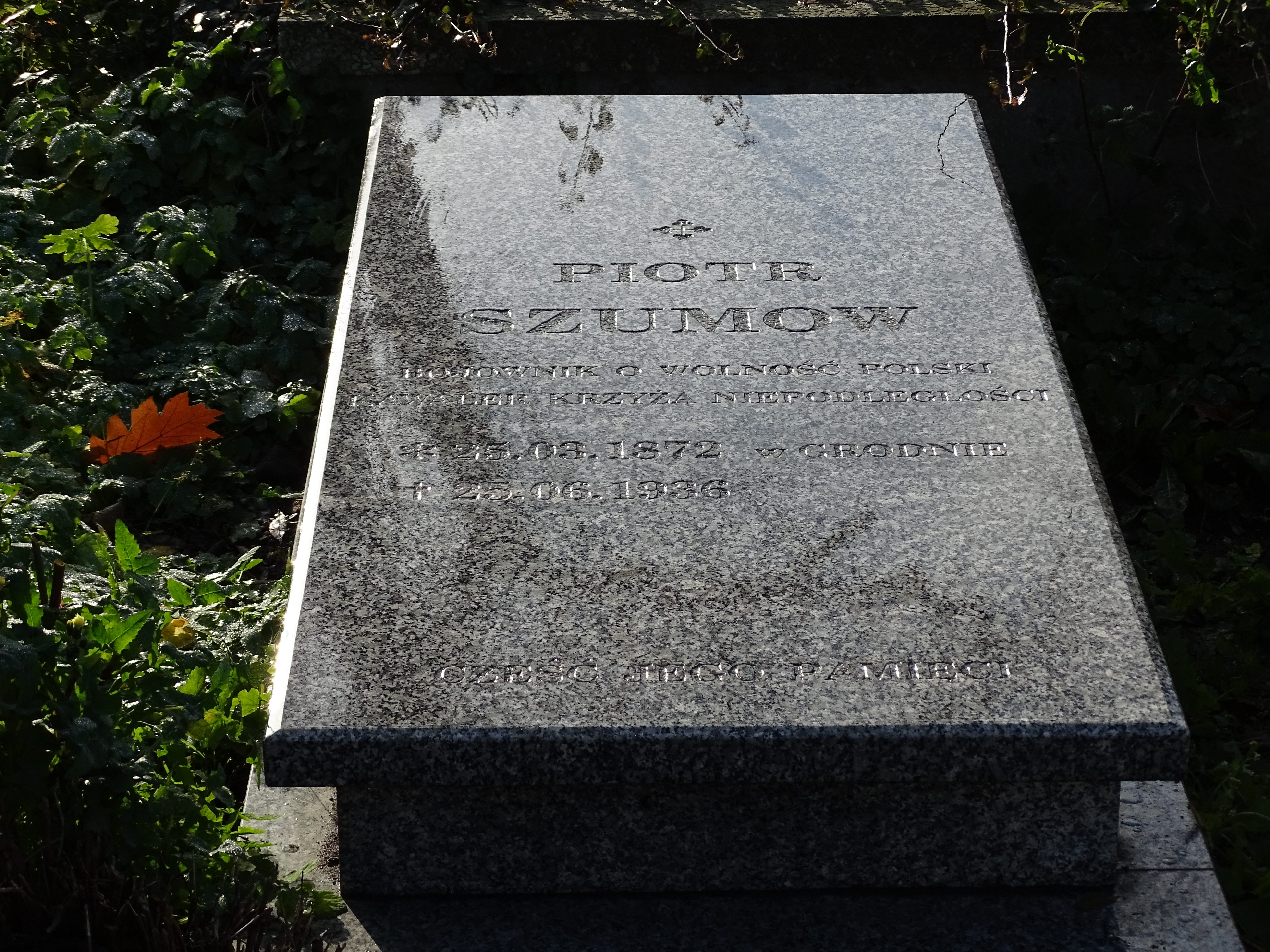 Piotr Szumow (Pierre Choumoff - Paris photographer) tomb at Evangelical Reformed cemetery, 12 Rejtana Str., Łódź, Poland. Text below name: "BOJOWNIK O WOLNOŚĆ POLSKI|KAWALER KRZYŻA NIEPODLEGŁOŚCI|*25.03.1872 W GRODNIE|+25.06.1936|CZEŚĆ JEGO PAMIĘCI"